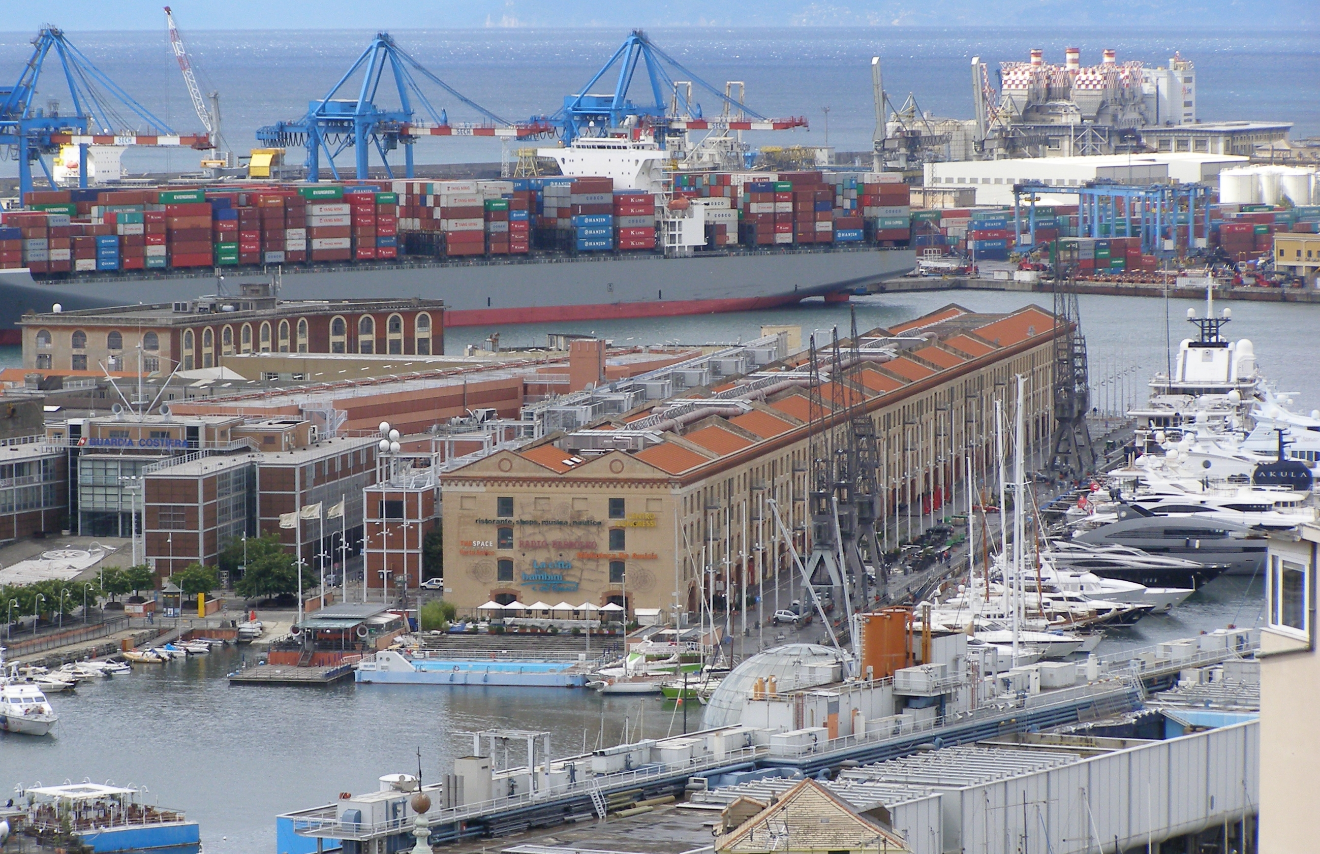 Genoa - view from Spianata Castelletto